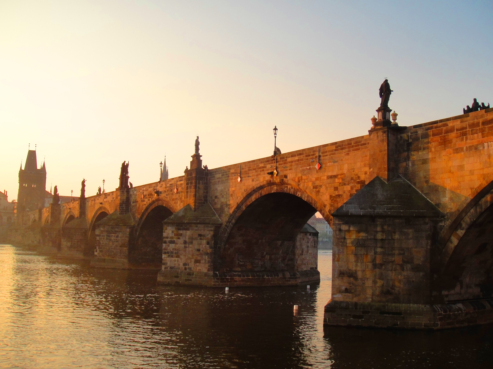 Charles bridge5